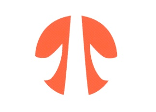 Flag of Ogawa Nagano